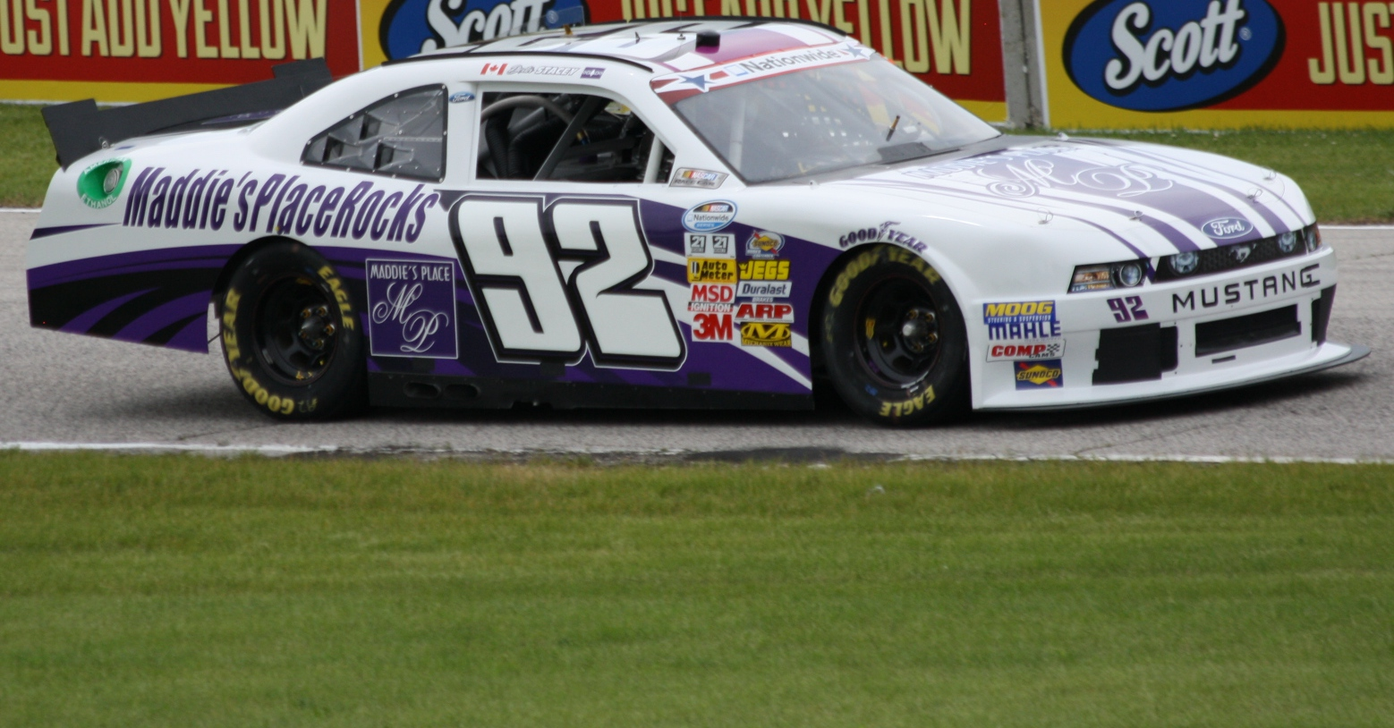 The NASCAR Nationwide car of Dexter Stacey during the w:2013 Johnsonville Sausage 200 at Road America.